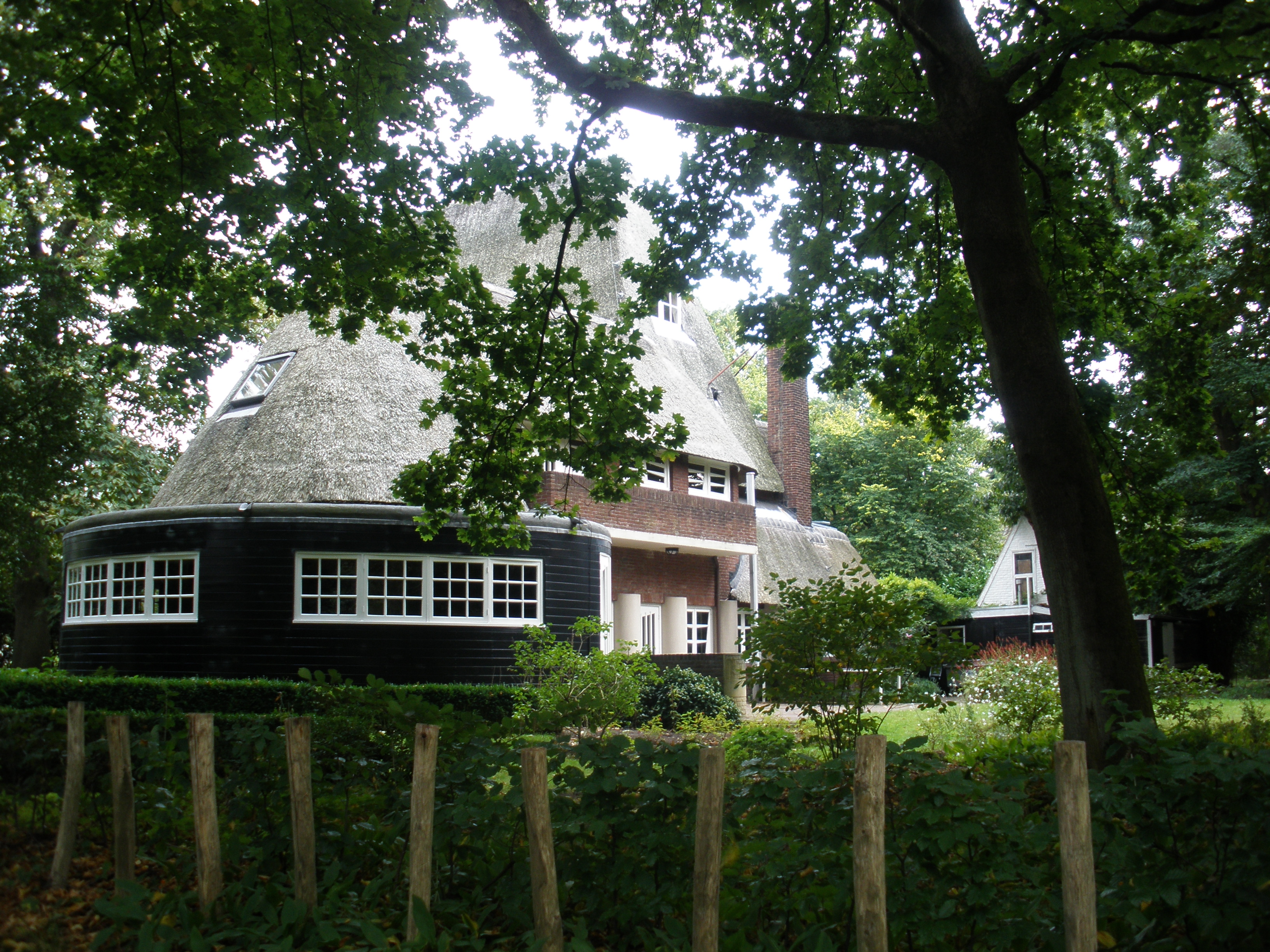 Walter Maas Huis, from the north.